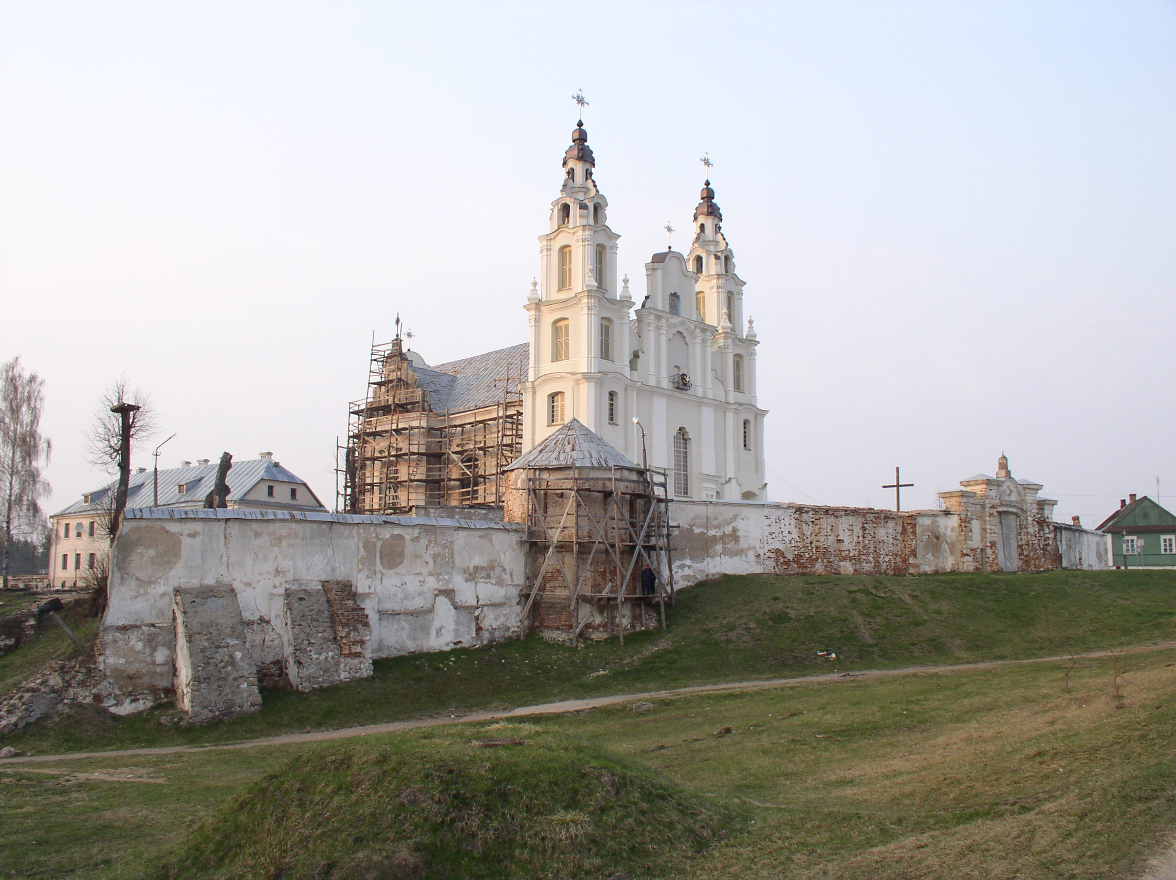 Church of Saint Michael the Archangel. Ivyanets, Belarus.